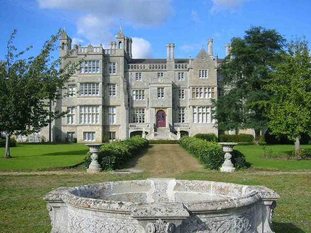 Ramsey Abbey School, Ramsey, Cambridgeshire (formerly Huntingdonshire)